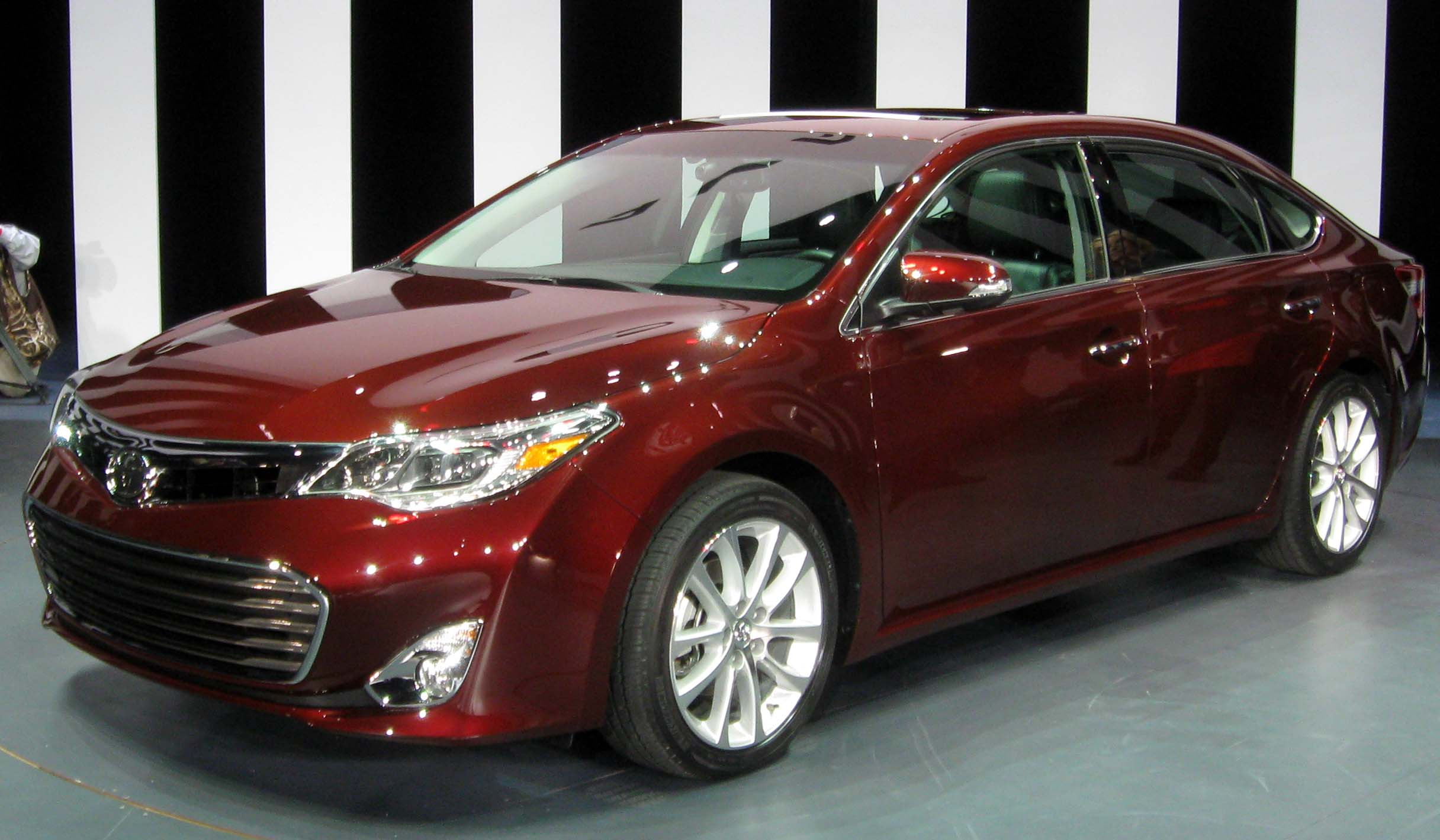 2013 Toyota Avalon photographed at the 2012 New York International Auto Show.